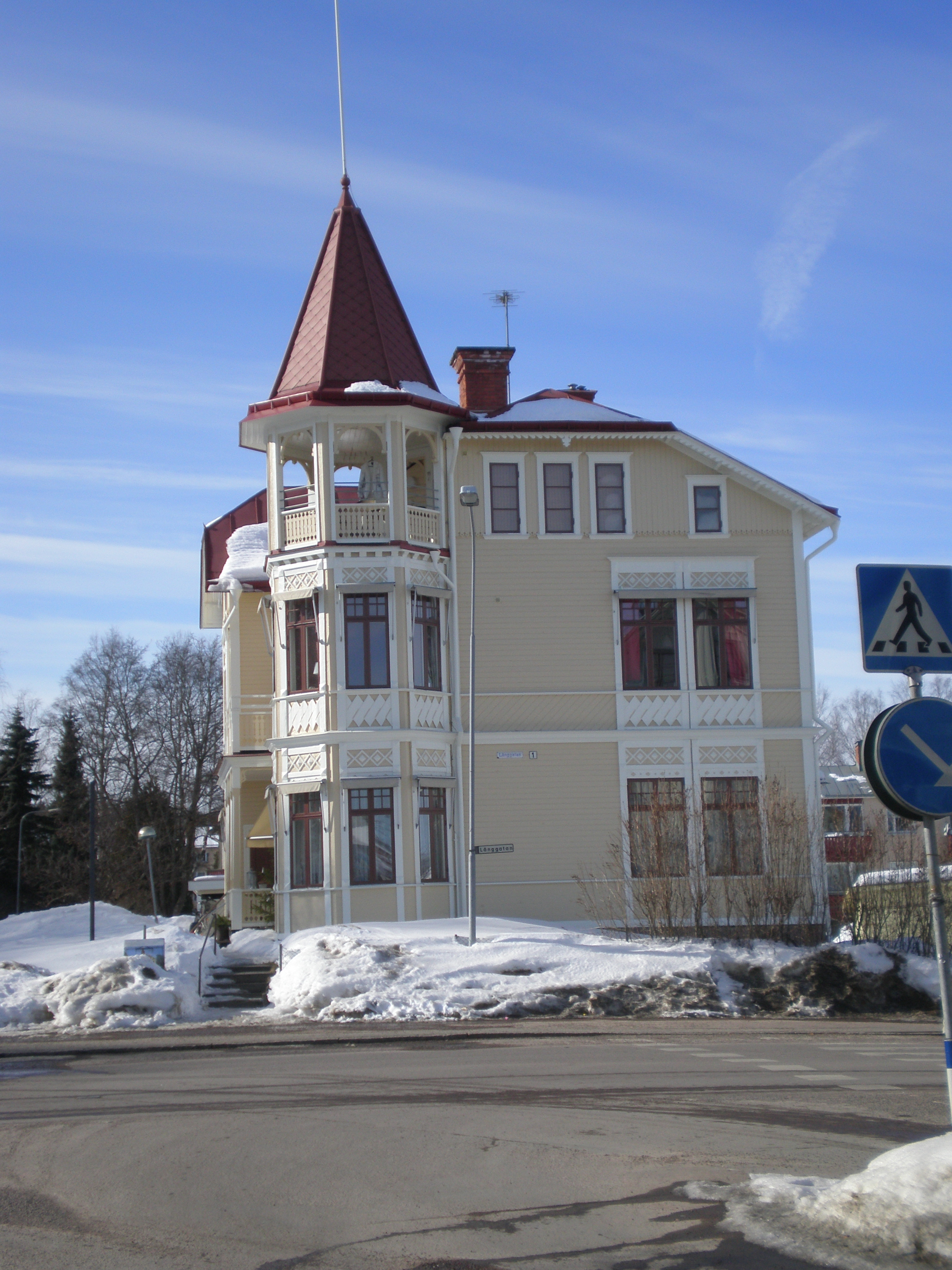 Villa Helios in Sunne,Sweden